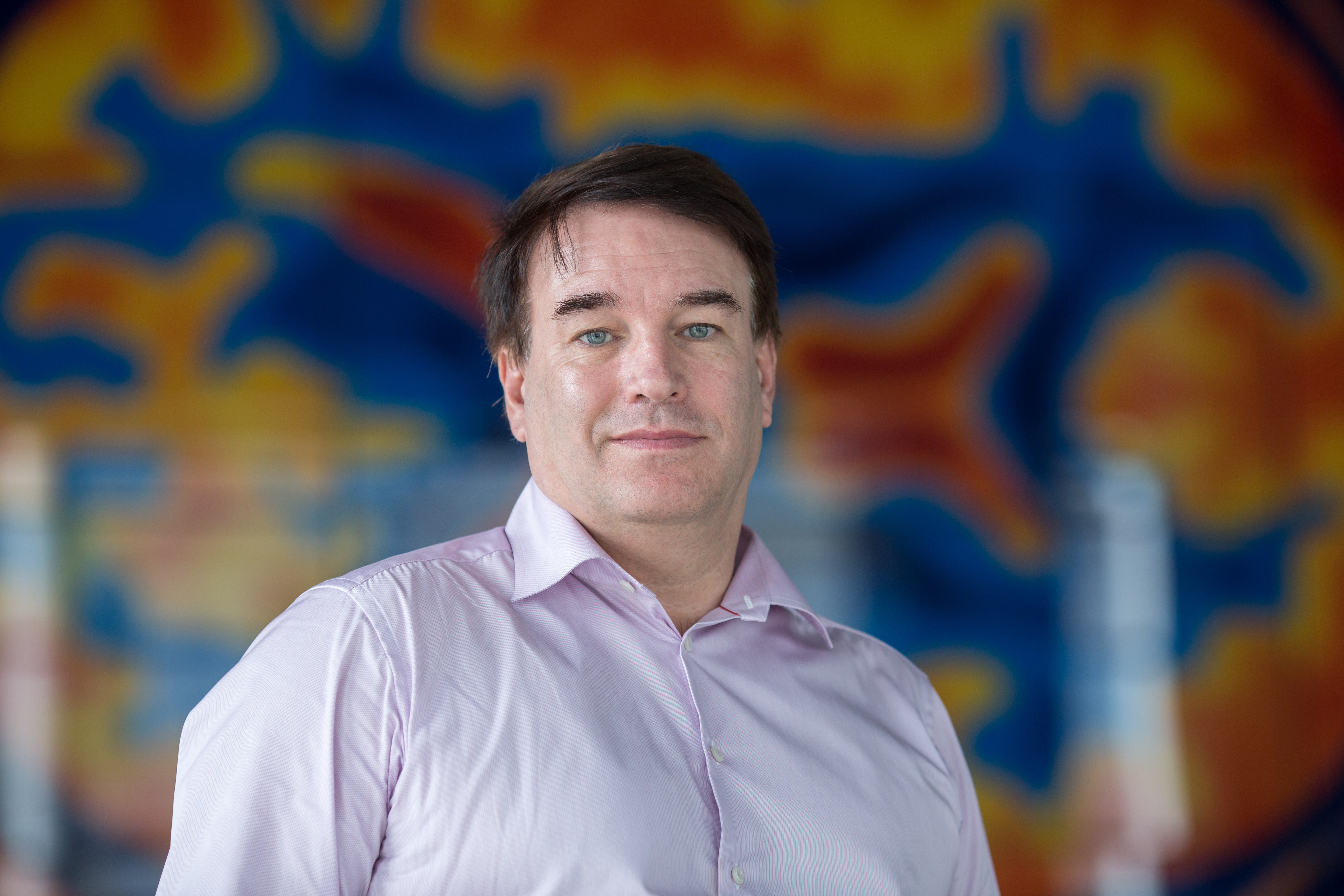 Nicholas Harrison, Imperial College, 2015